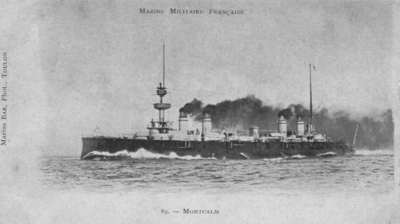 French cuiser Montcalm (1897-1942)